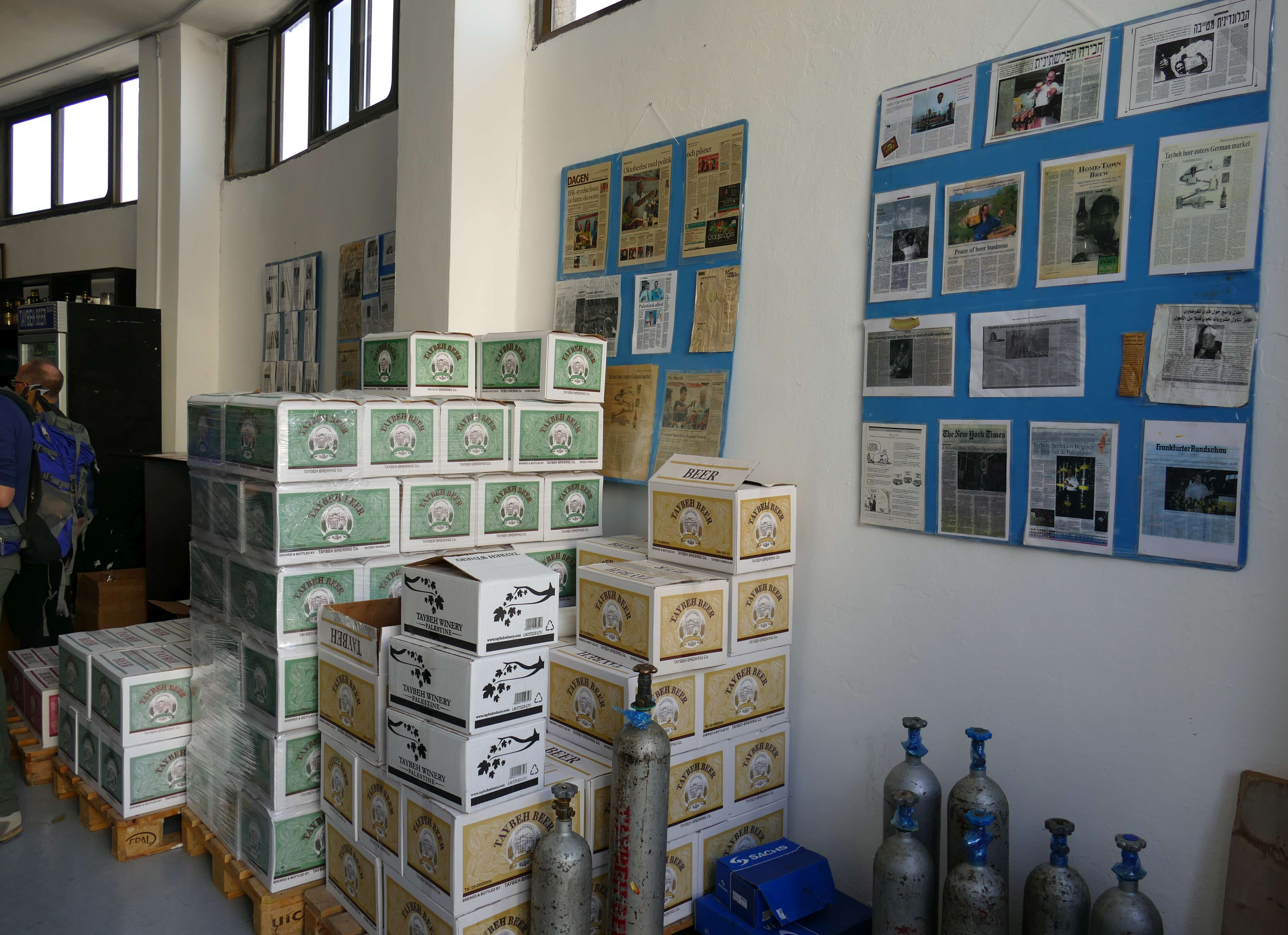 Taybeh Brewery, Taybeh, West Bank.